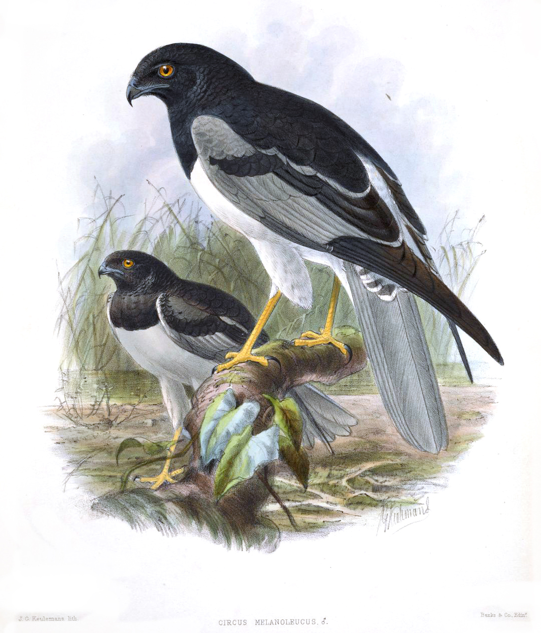 Male adult Pied Harriers (Circus melanoleucos), lithograph by John Gerrard Keulemans.